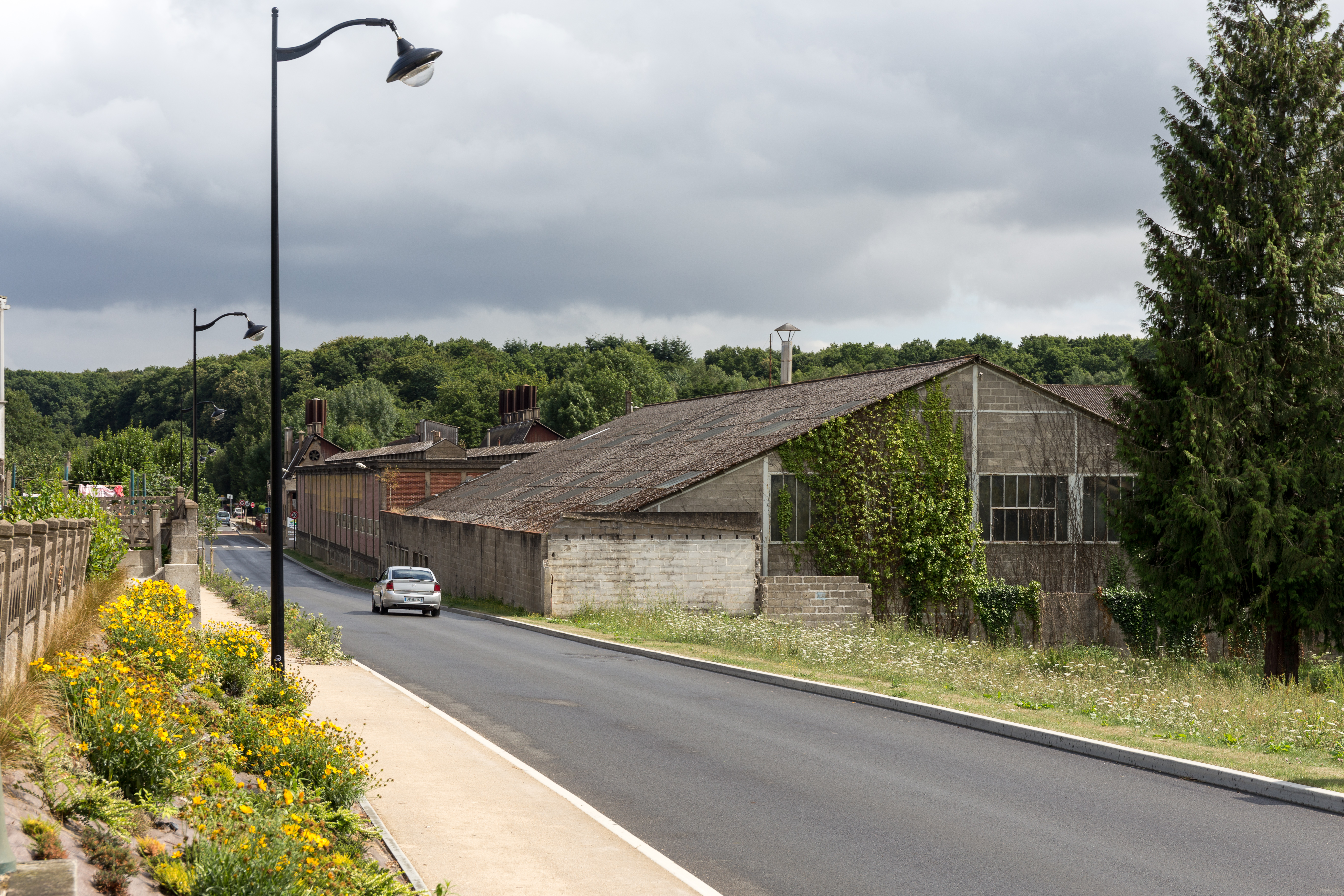 Former factory of Port-Brillet.